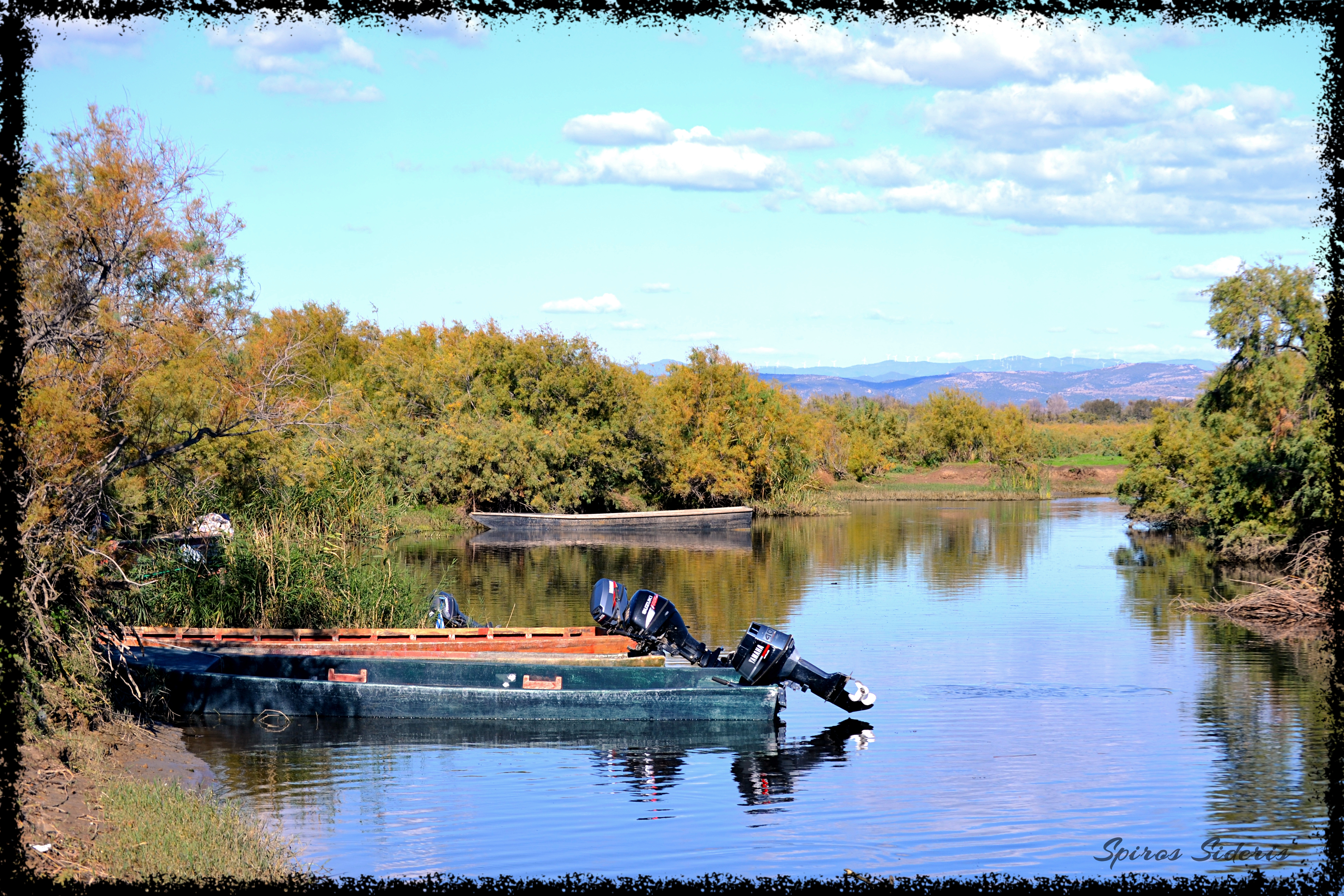 This is a photography of Natura 2000 protected area with ID GR1110006